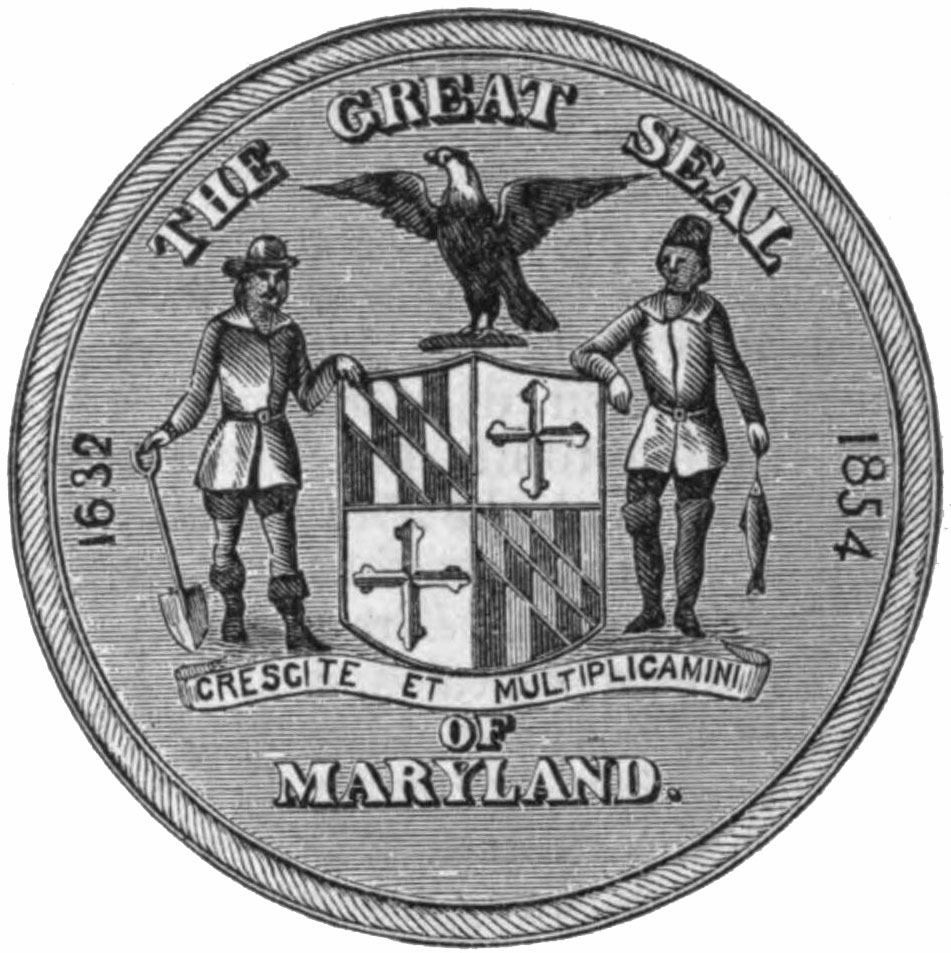 Seal of Maryland, a state of the United States.